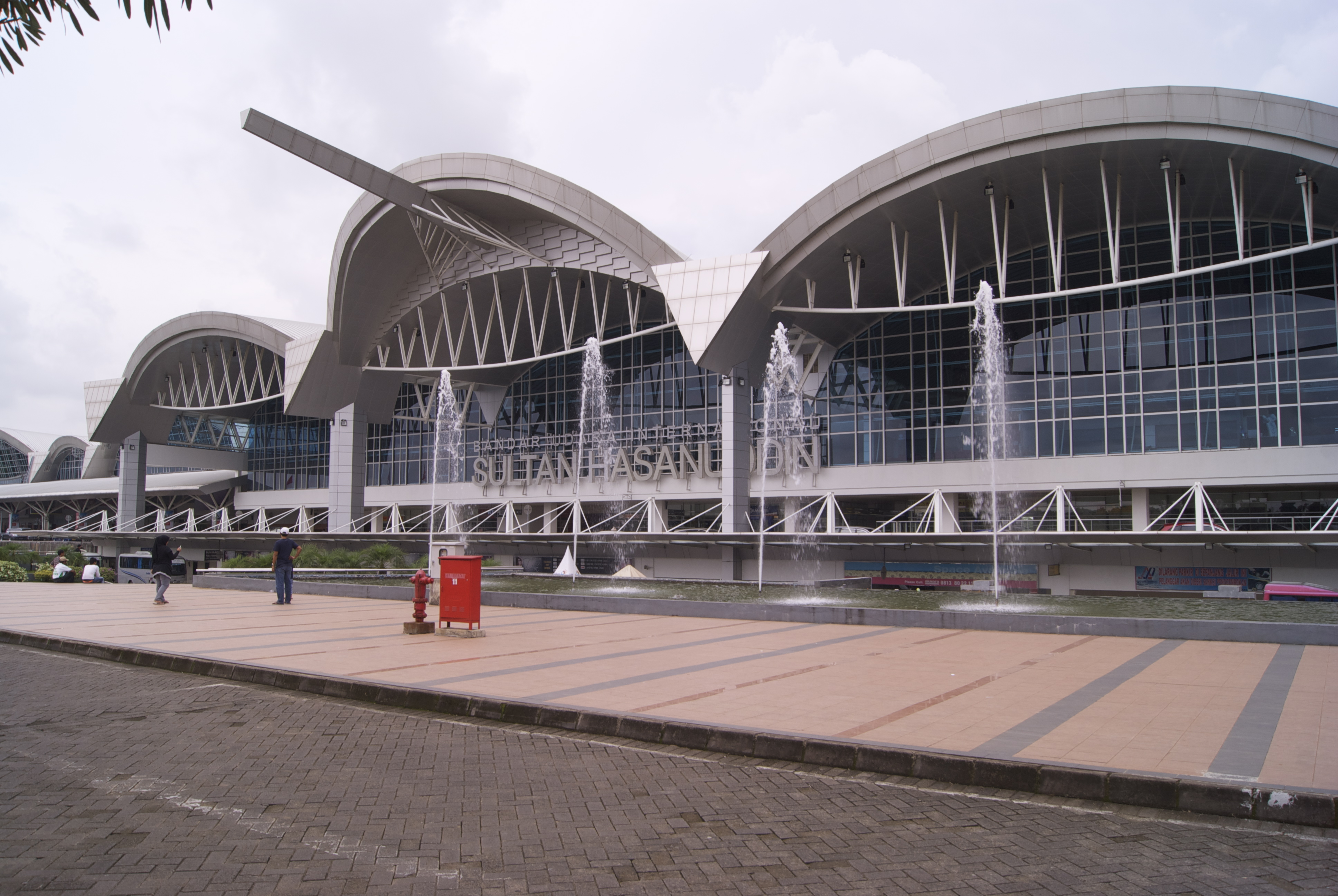 Sultan Hasanuddin International Airport, Makassar